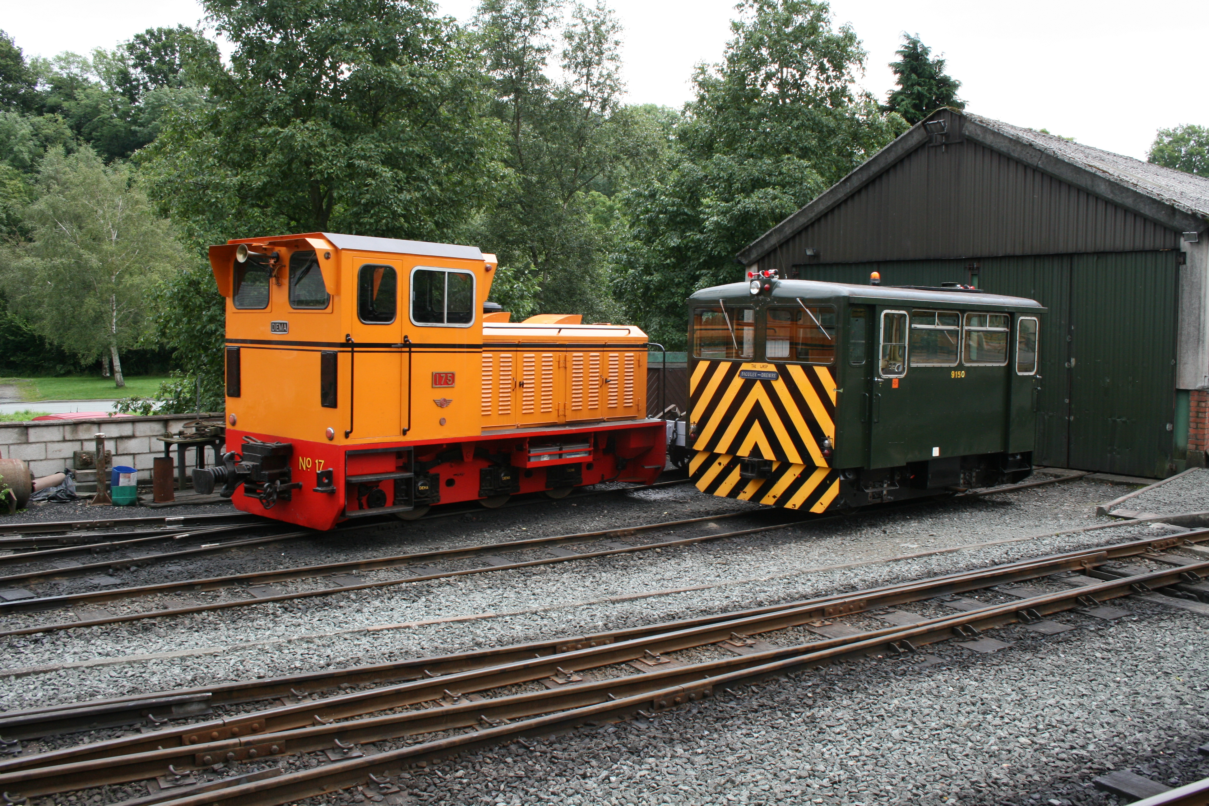 A modern 6 wheel diesel and a Baguley-Drewry inspection car